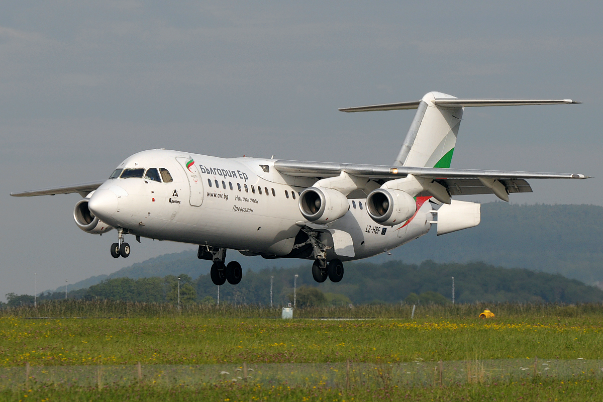 Bulgaria Air British Aerospace BAe 146-300 in Zurich